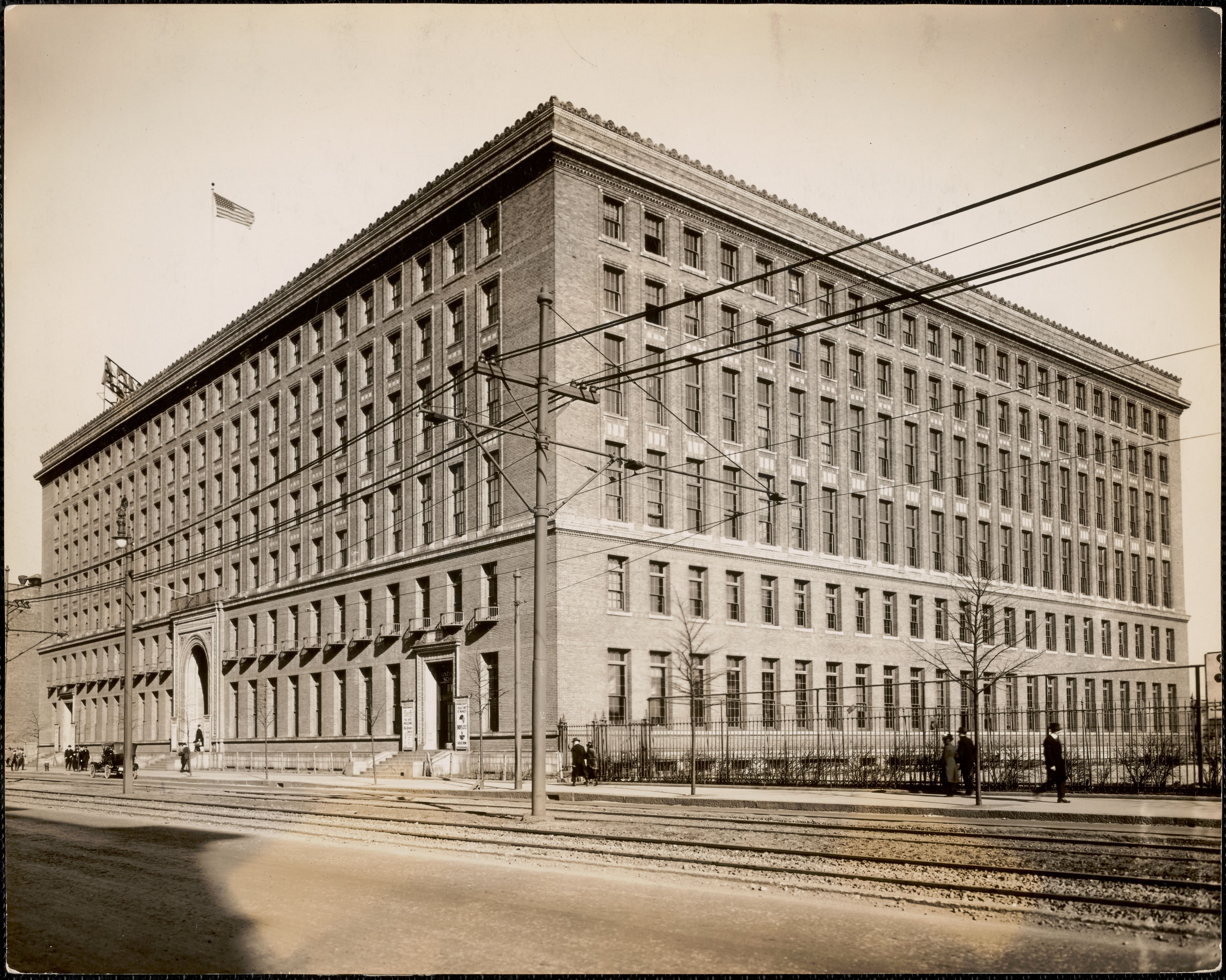 A 1920 photograph of the YMCA on Huntington Avenue in Boston, as taken from Opera Place